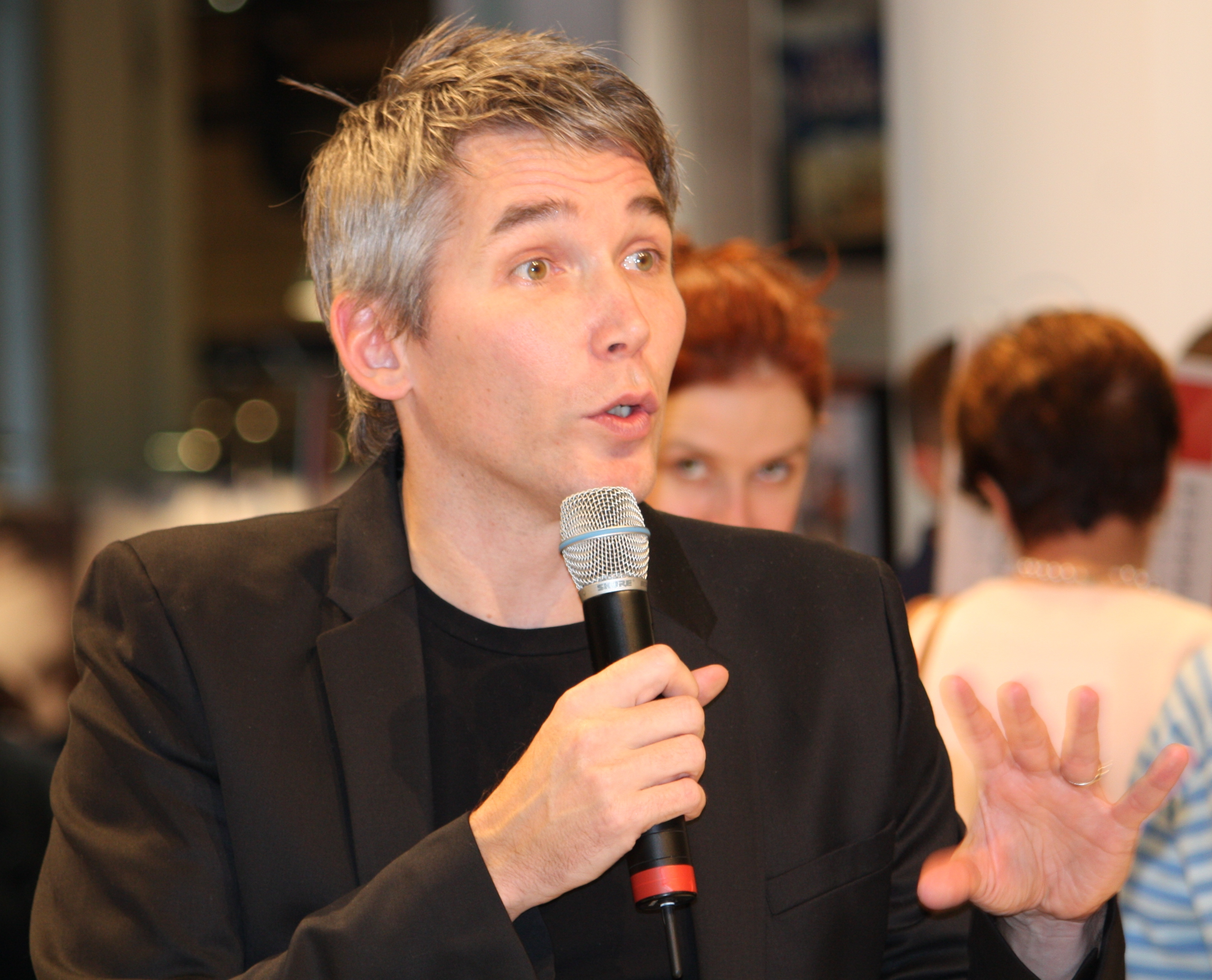 Finnish writer Miika Nousiainen at the Helsinki Book Fair 2011